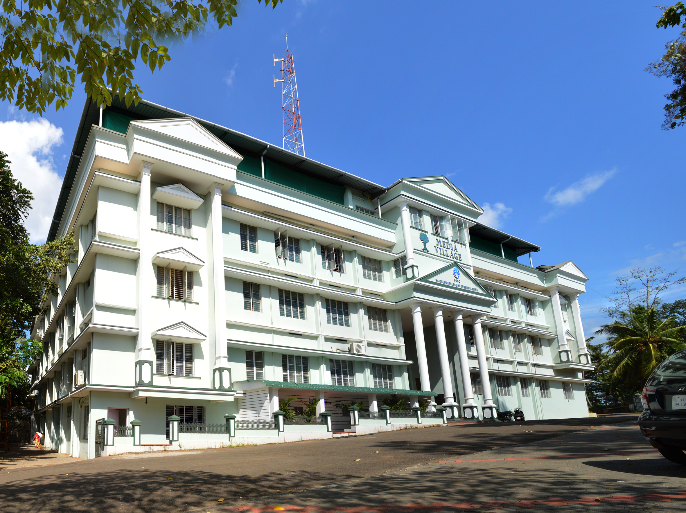 Administrative Block